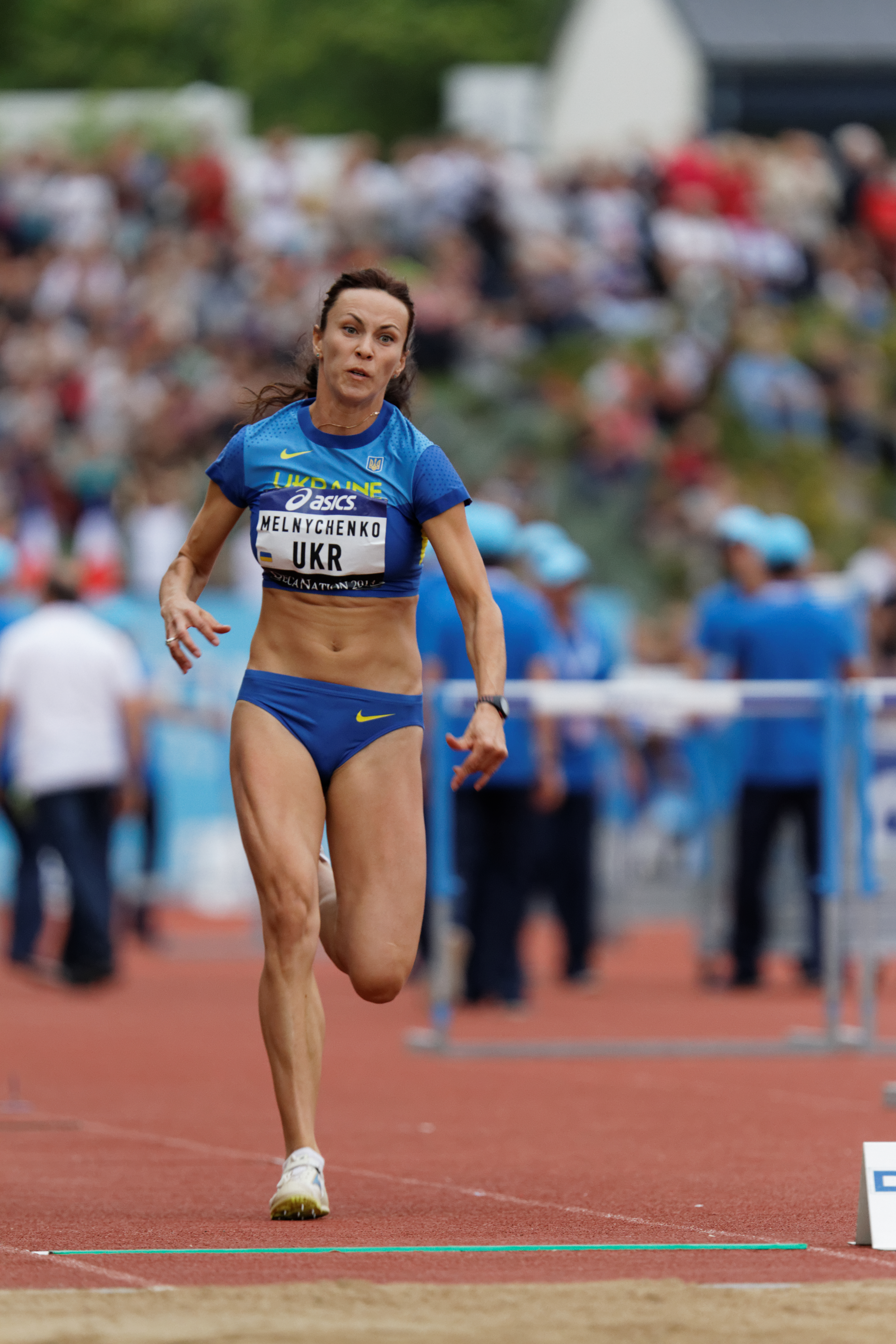 DécaNation 2014